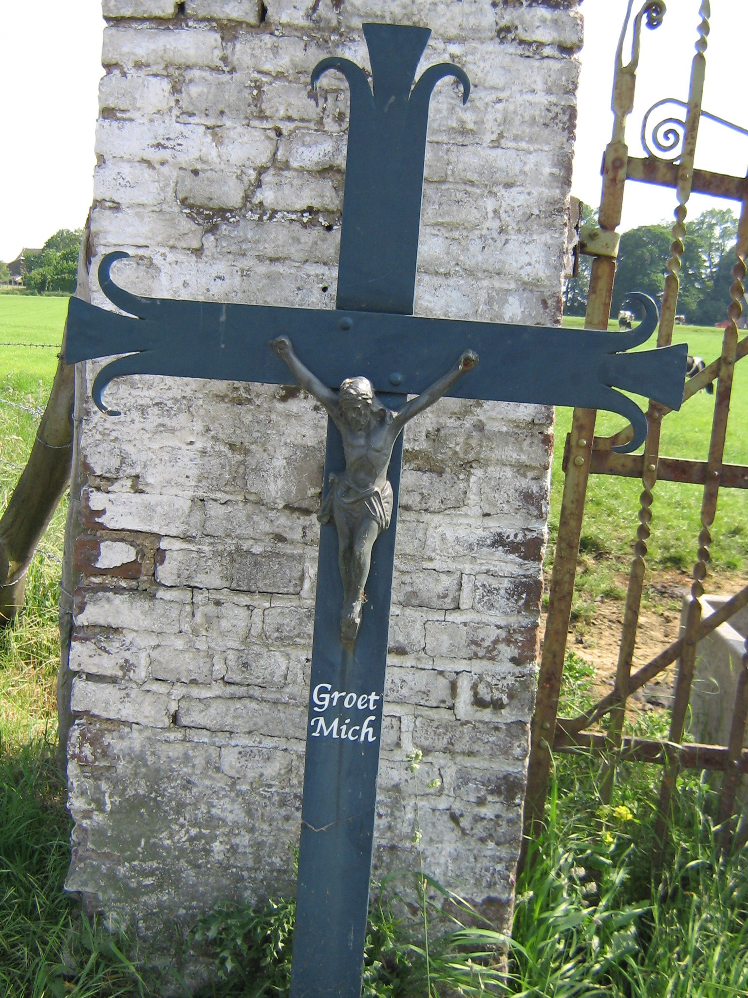 Weegkruus mèt opsjrif in 't plat. Wegkruis met Limburgstalig opschrift. Iron cross with Limburgian inscription: "Greet Me".